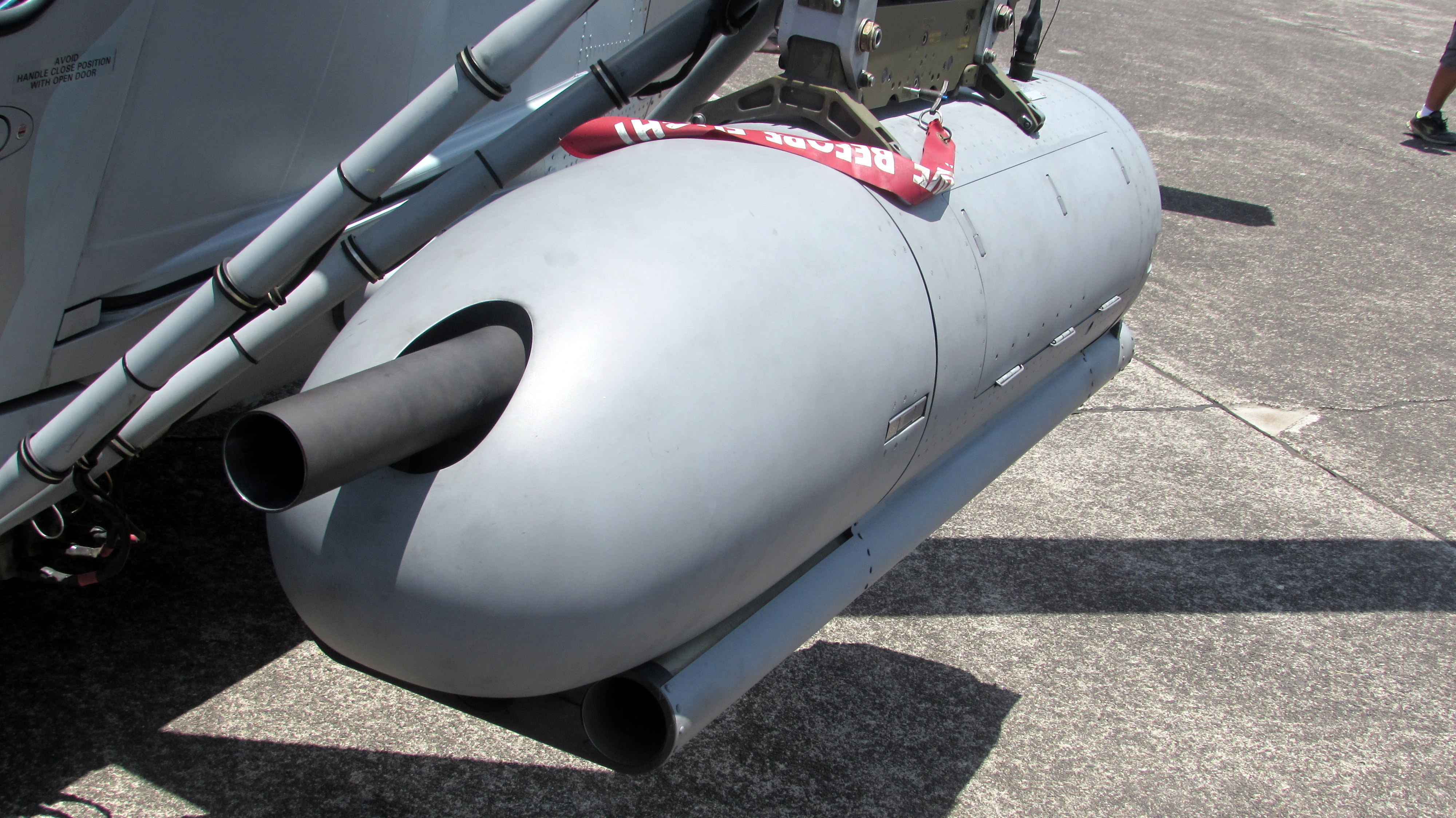 The Rocket and Machinegun Pod (RMP) of the Philippine Air Force's AW109 Helicopter. Photo taken during the Static Aircraft Display Day of the Balikatan 2016 Exercise.